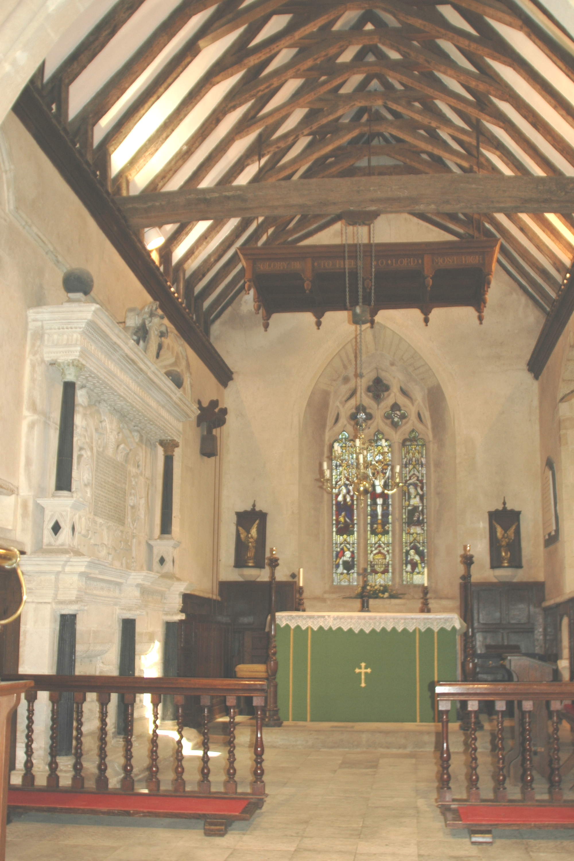 Interior of the chancel of St Nicholas' parish church, Ickford, Buckinghamshire, showing east window and Tipping monument